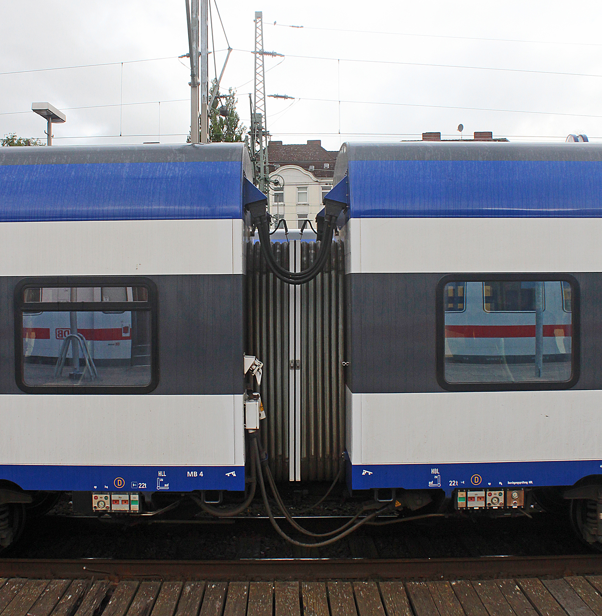 Connection between two "Married Pair" coaches of operator Nord-Ostsee-Bahn (NOB).